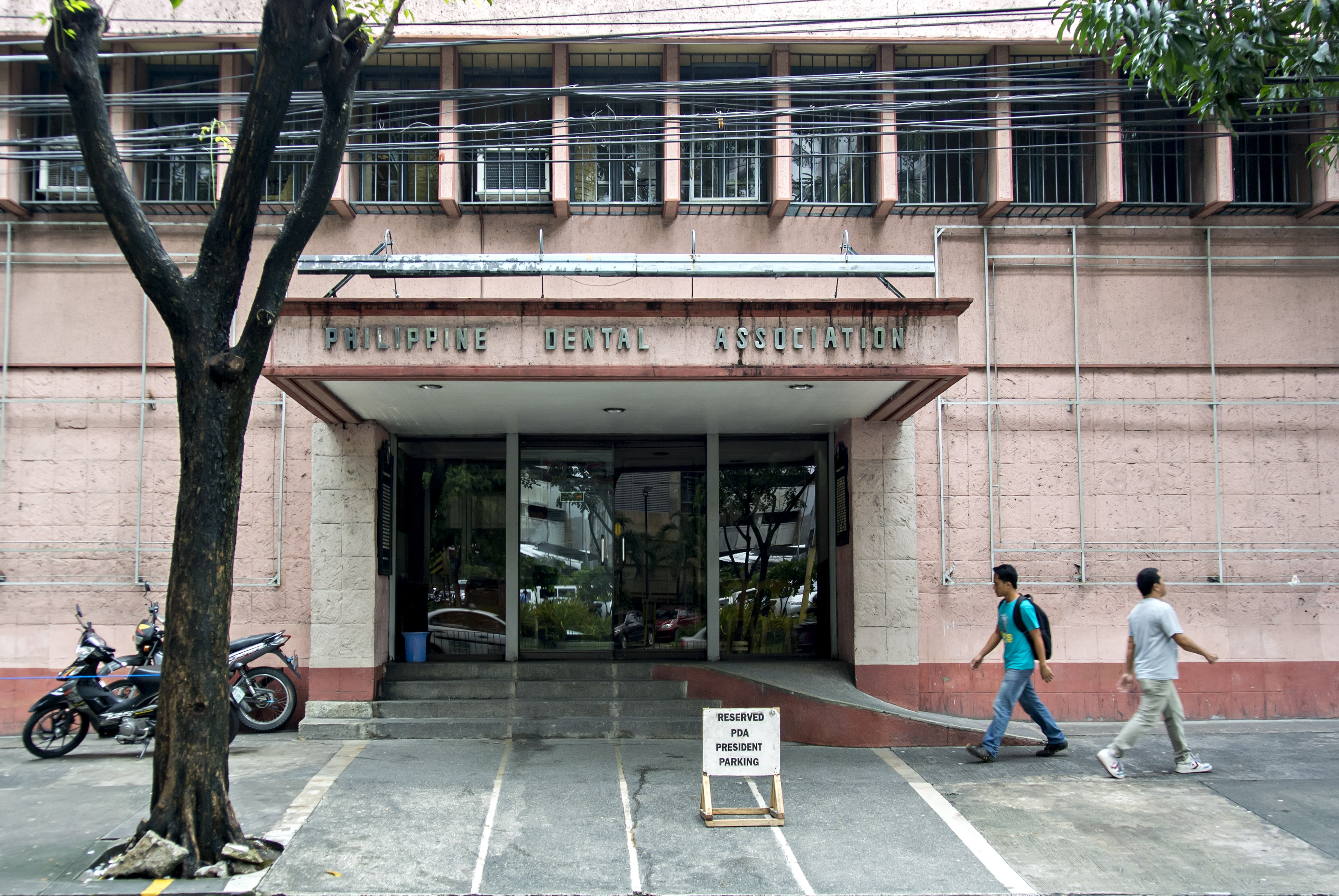 The Philippine Dental Association of the Philippines was the first association of the Philippines and was called Sociedad Dental de Filipinas on year 1908.